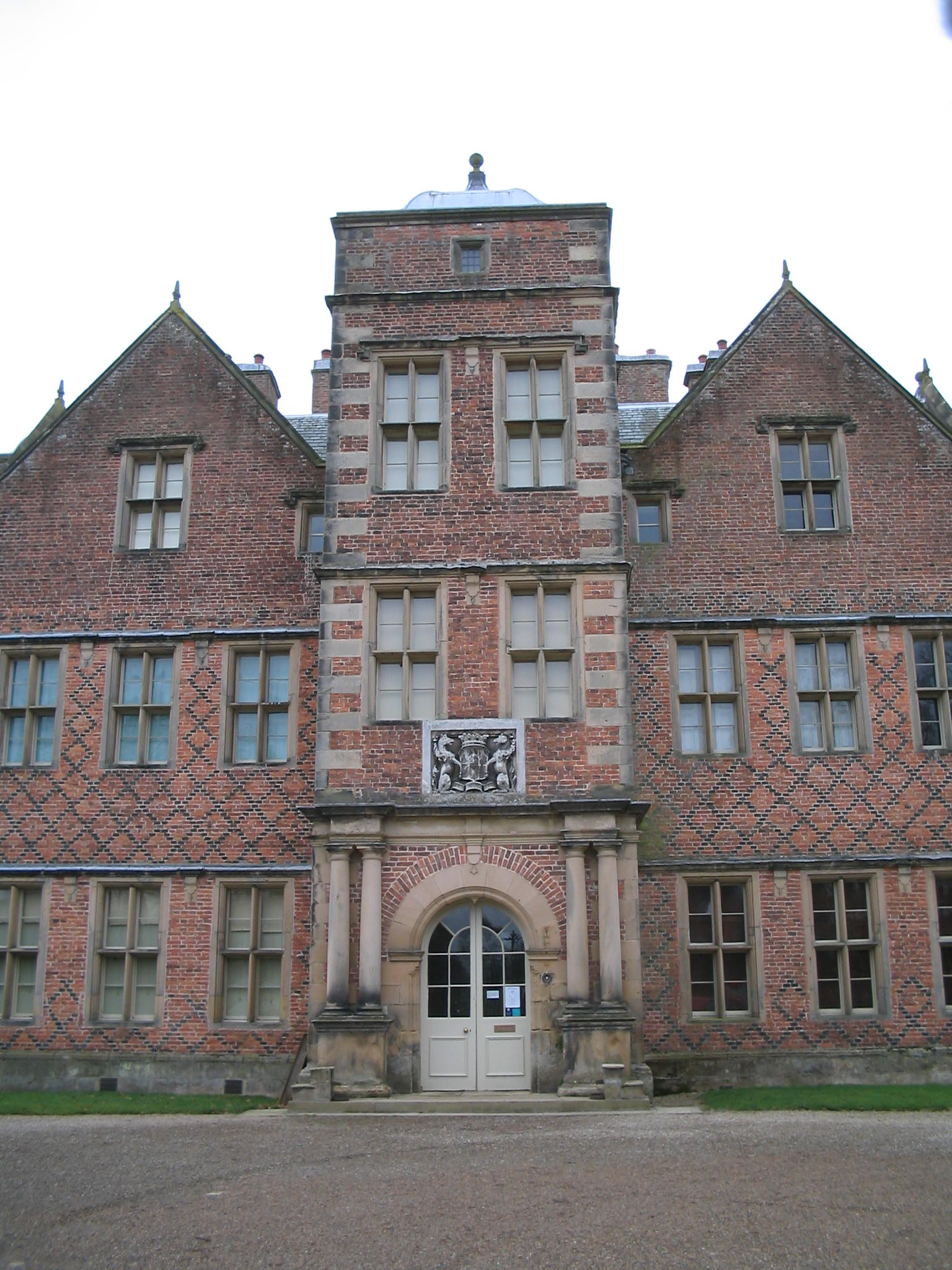 Frontage of Kiplin Hall, North Yorkshire, UK. Taken February 2005 by MadMedea. Own Work.